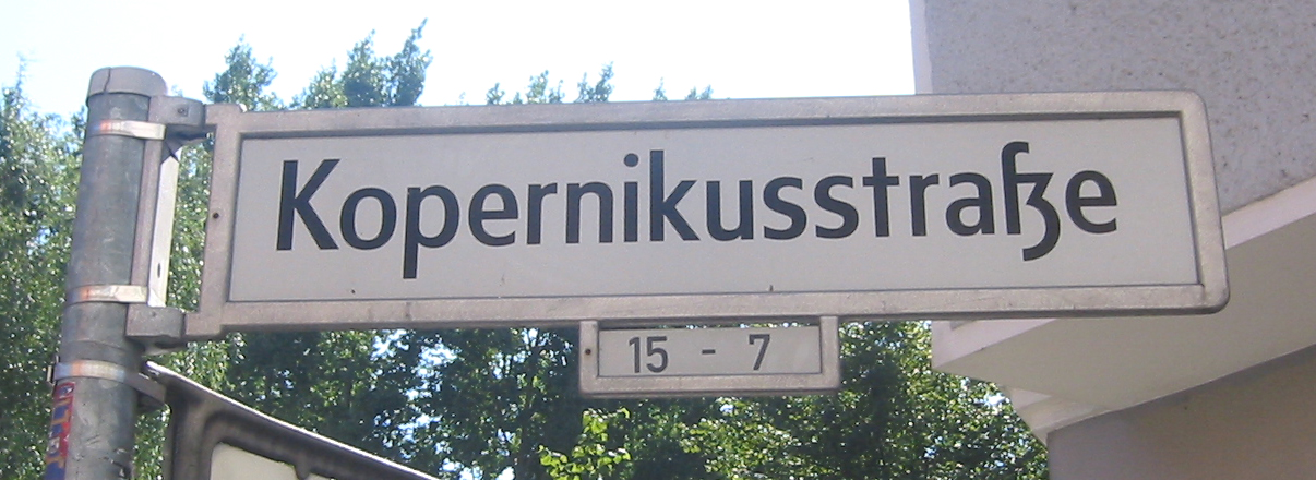 street sign of Kopernikusstraße, Berlin